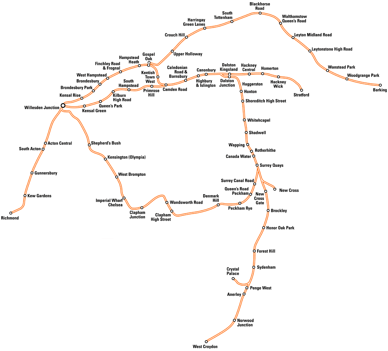 London Overground map, several lines